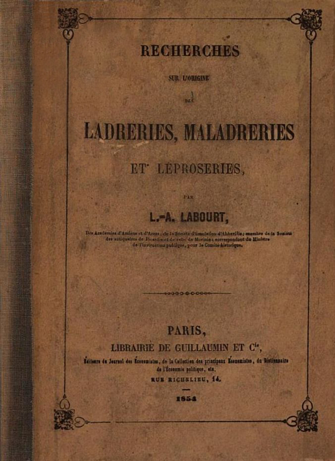 Cover of L.-A. Labourt "Recherches sur l’origine des lardreries, maladreries et léproseries" (Paris, 1854)